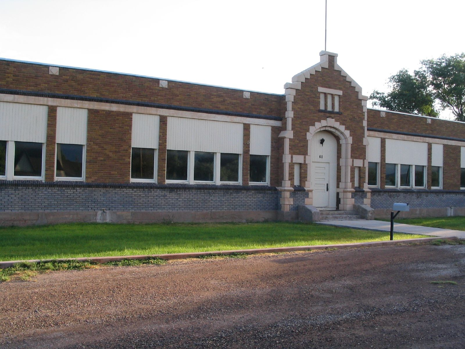 The old Venice School in Venice, Utah, United States. Built in 1924, it served as the tiny community's school for grades 1–8 until it was closed in 1950.